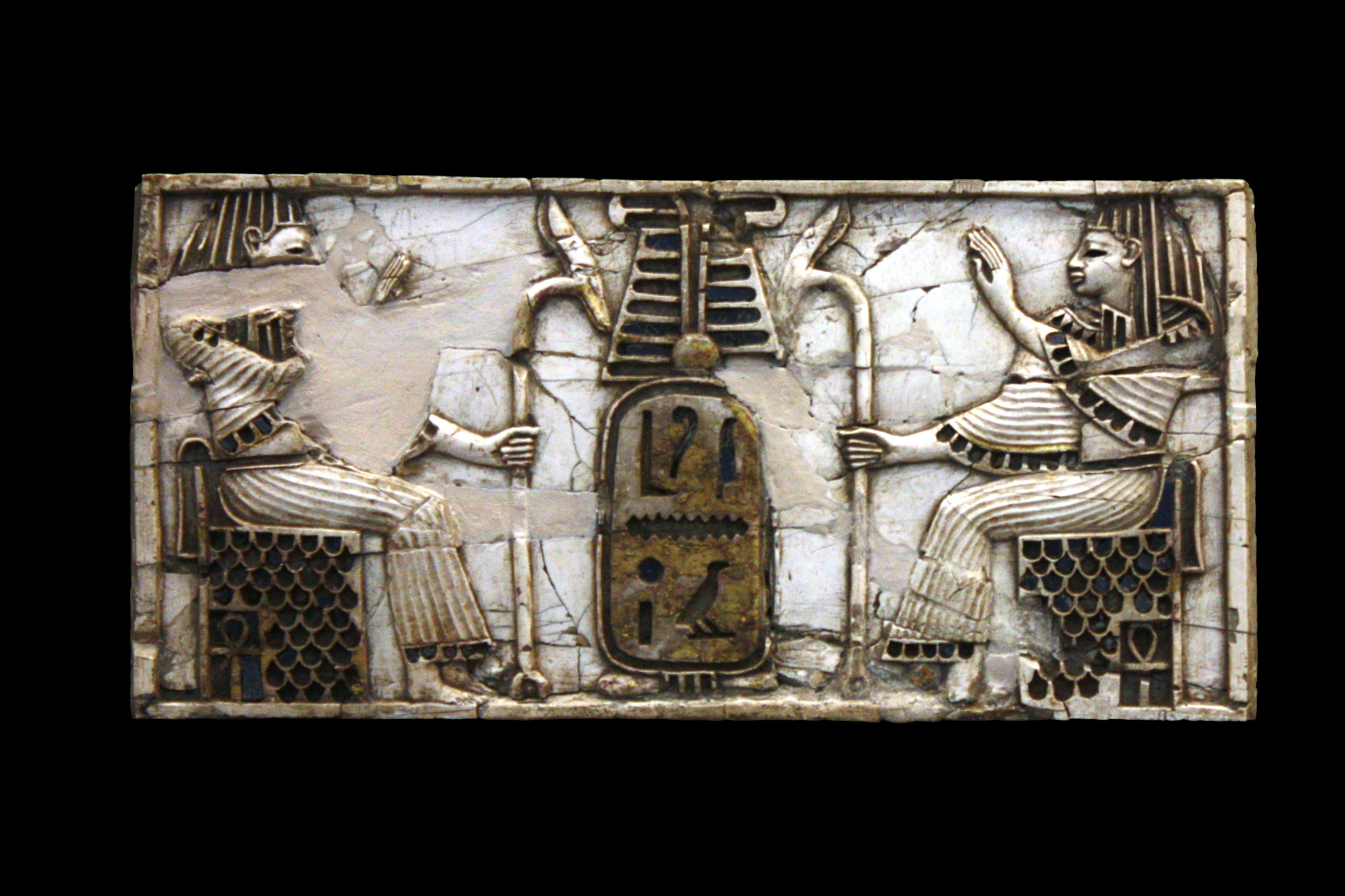 Two seated figures, with a meaningless, decorative cartouche in Egyptian style. Phoenician craftmanship.